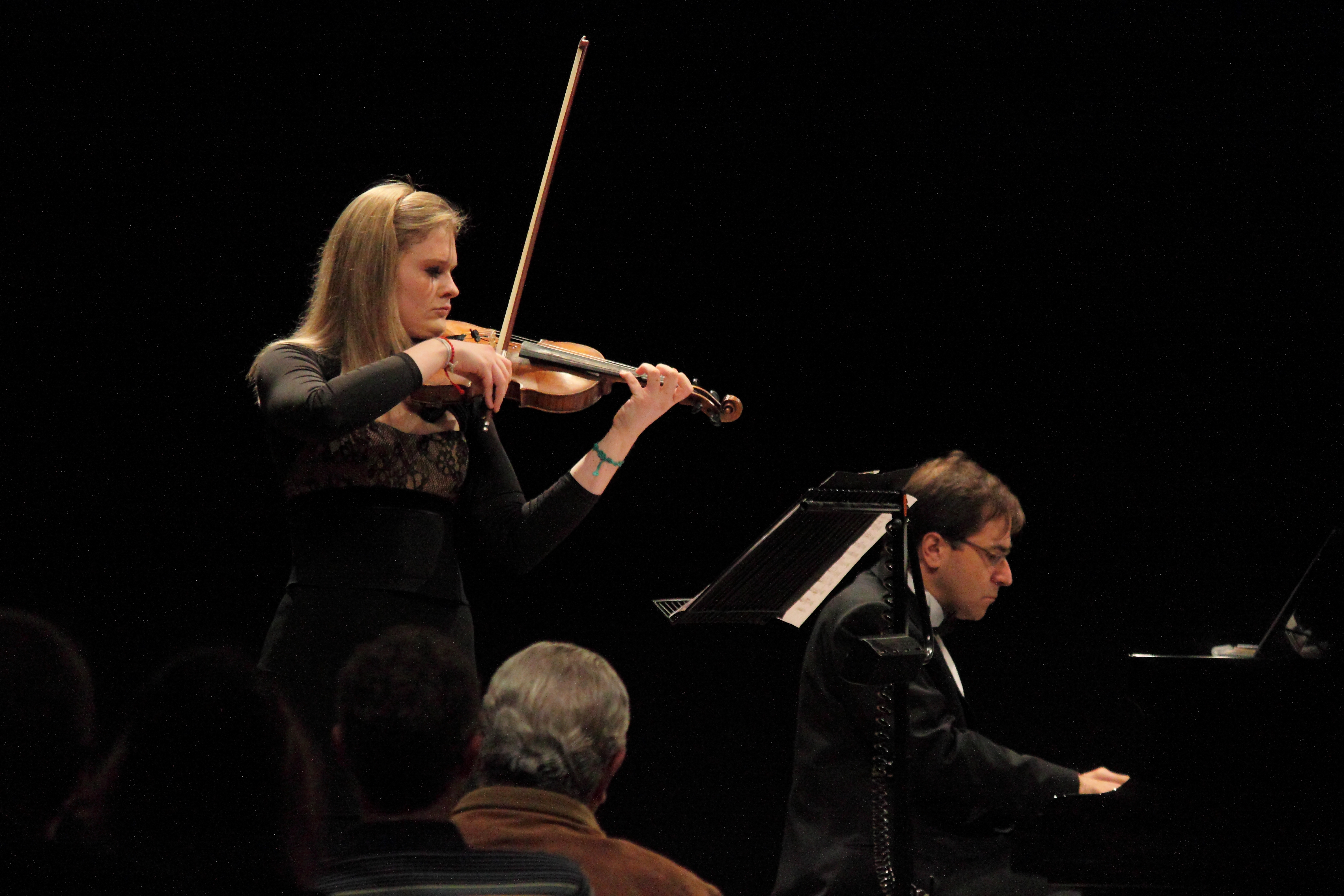 Photo by Francesco Fratta (Foligno, Italy). Concert on October 7, 2012 at the San Domenico Auditorium, Foligno (Italy). Carlotta Nobile, violin - Marco Scolastra, piano.